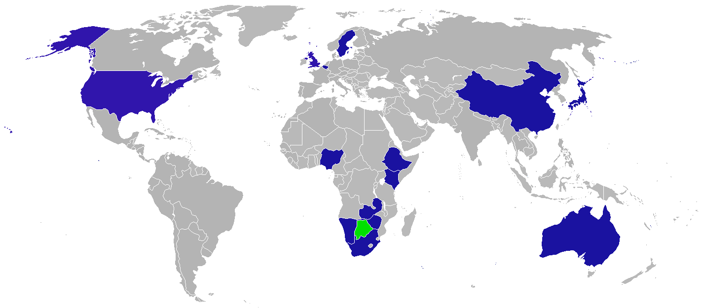 Diplomatic missions - Botswana